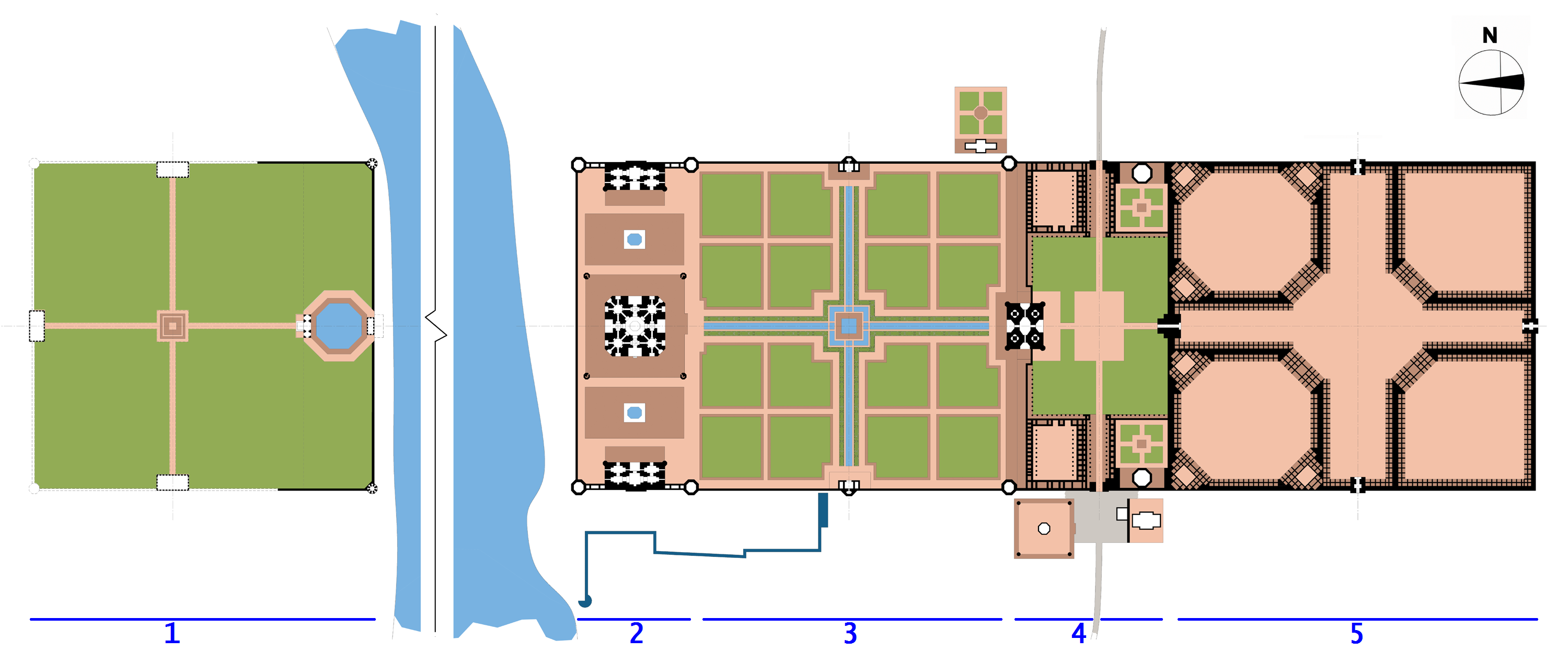 Taj Mahal Site Plan: The Taj Mahal complex can be conveniently divided into 5 sections: 1. The 'moonlight garden' to the north of the river Yamuna. 2. The riverfront terrace, containing the Mausoleum, Mosque and Jawab. 3. The Charbagh garden containing pavilions. 4. The jilaukhana containing accommodation for the tomb attendants and two subsidiary tombs. 5. The Taj Ganji, originally a bazaar and caravanserai only traces of which are still preserved. The great gate lies between the jilaukhana and the garden. Levels gradually descend in steps from the Taj Ganji towards the river. Contemporary descriptions of the complex list the elements in order from the river terrace towards the Taj Ganji.